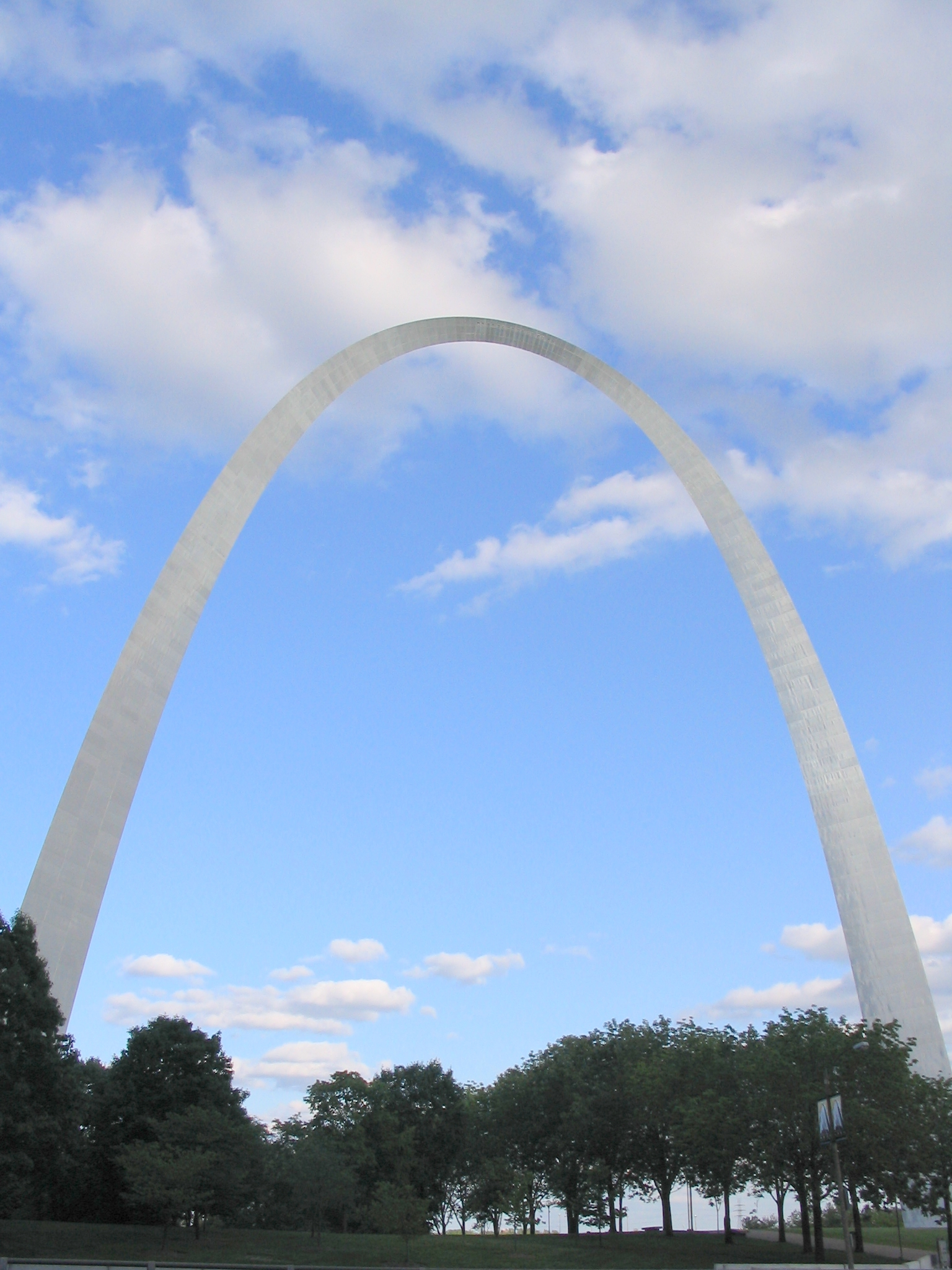 Gateway Arch, St. Louis (MO)